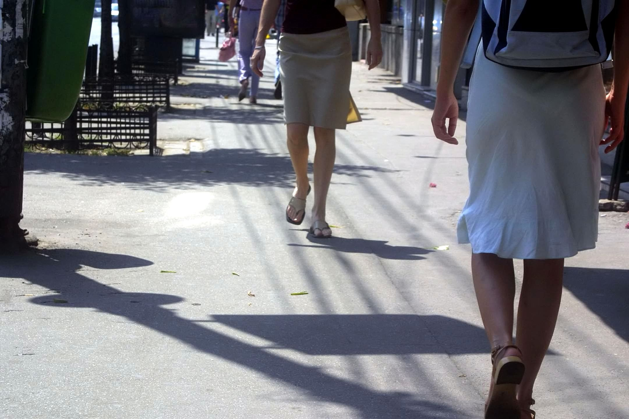 Image title: Urban streets people walking Image from Public domain images website